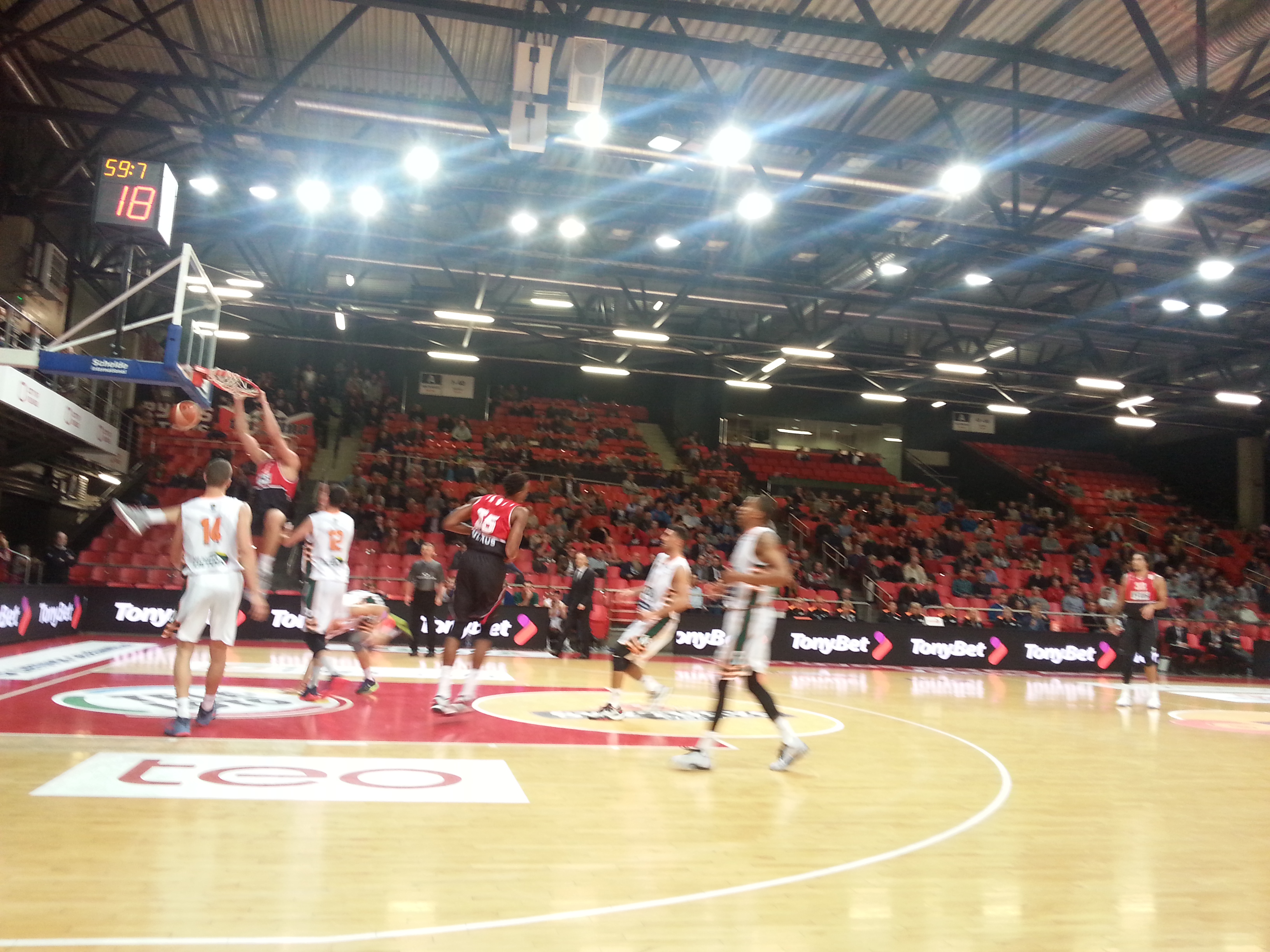 A scene from the Lietuvos rytas 2016–2017 season opening game versus Nevėžis.